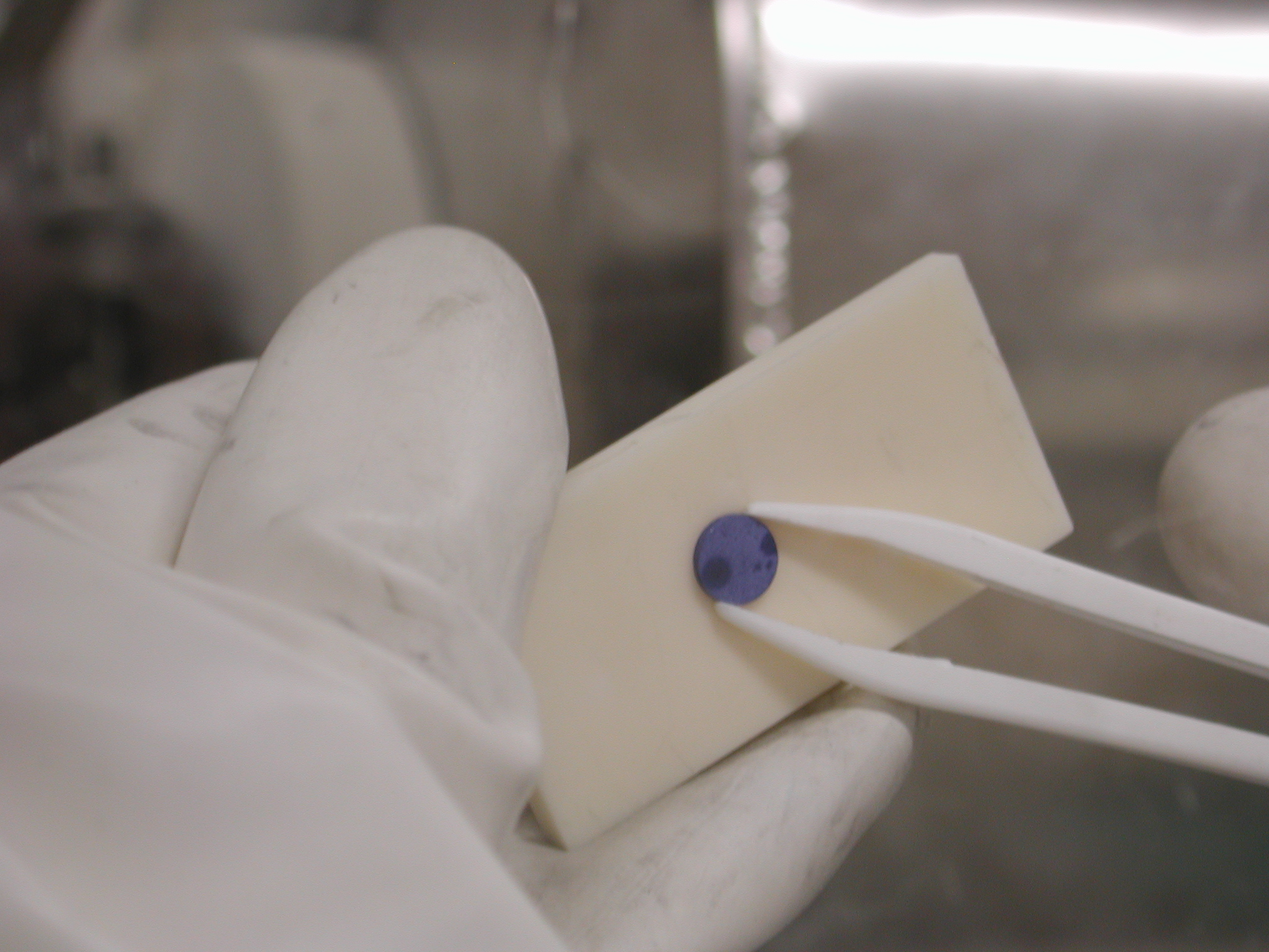 Pellet of plutonium(III) phosphate, PuPO4